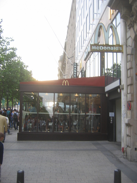 A McDonalds on the Champs-Élysées.